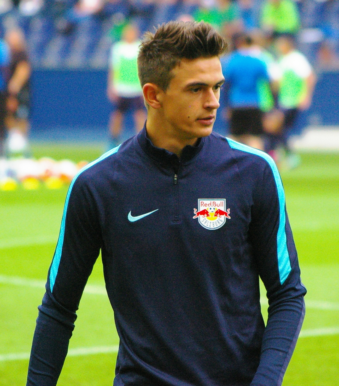 CL Qualifing match 3rd round 1st leg